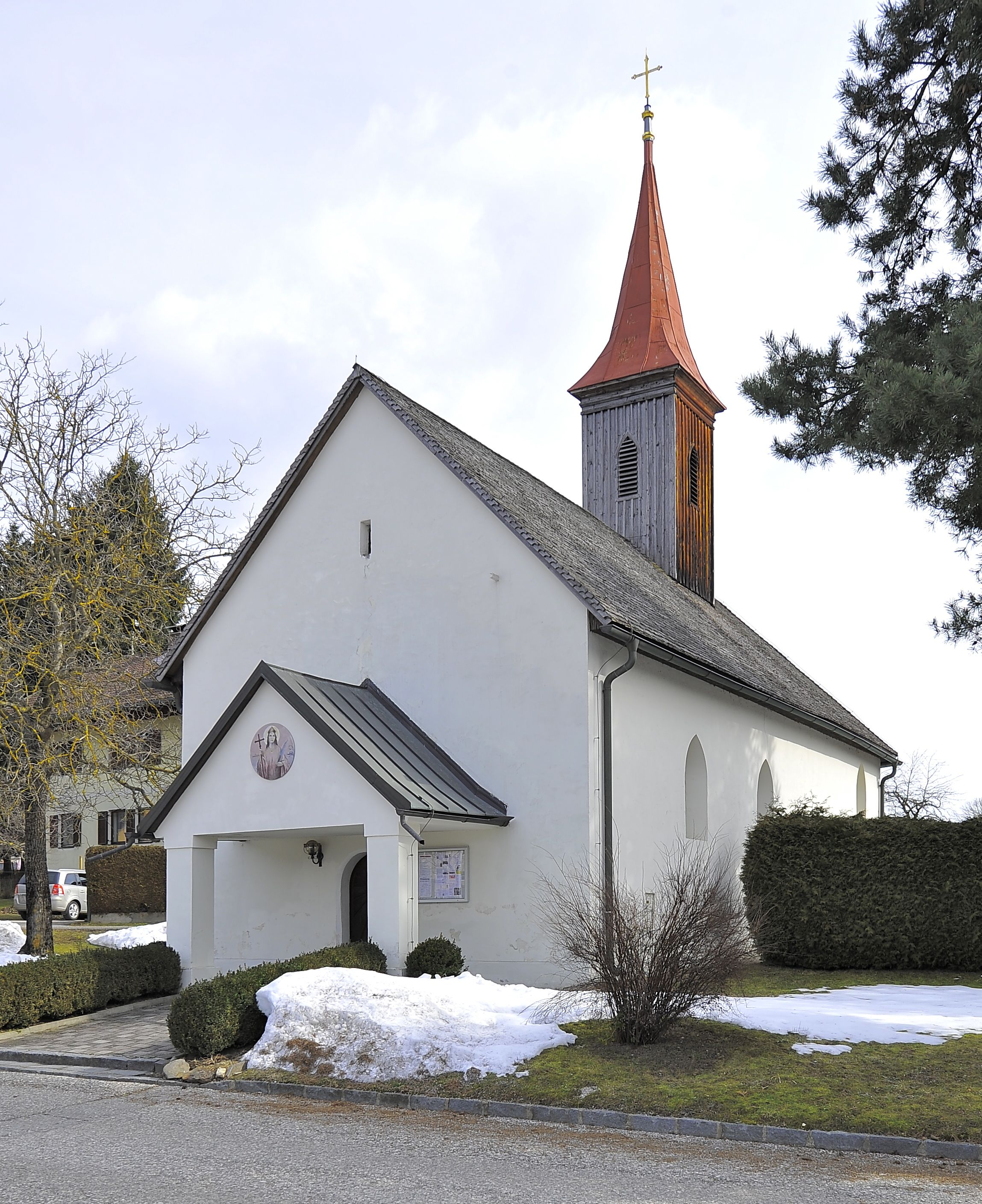 Subsidiary church holy Margaret at Grossvassach, city of Villach, Carinthia / Austria / EU